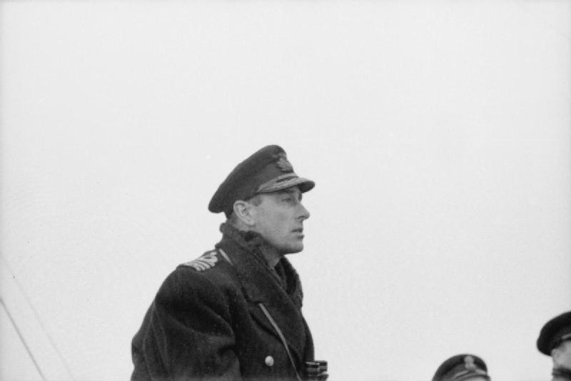 Admiral of the Fleet Earl Mountbatten of Burma Destroyer Captain: Captain Lord Louis Mountbatten on the bridge of HMS JACKAL.